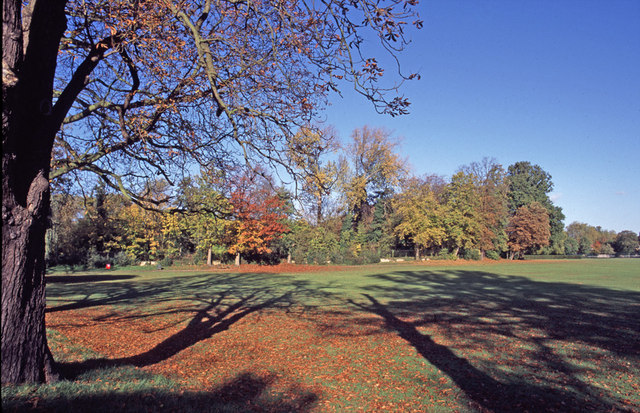 Enfield Town Park in Autumn, Enfield Enfield Town Park in Autumn looking towards the New River Loop, with the low sun casting shadows on the grass.